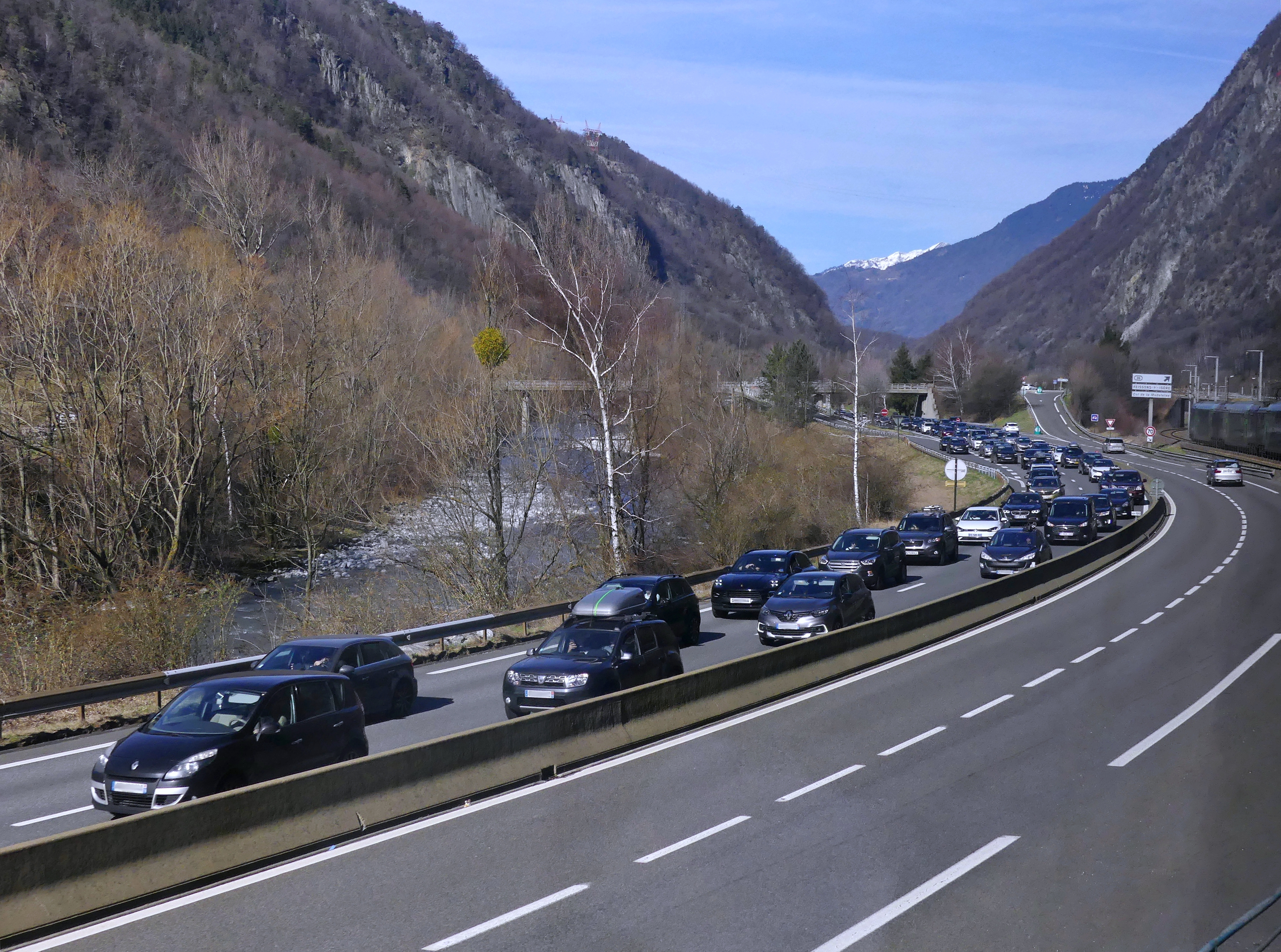 Sight of a winter traffic congestion on the RN 90 national road leading to the Alpine ski resorts of Savoie, on a Saturday of winter holidays, in France.